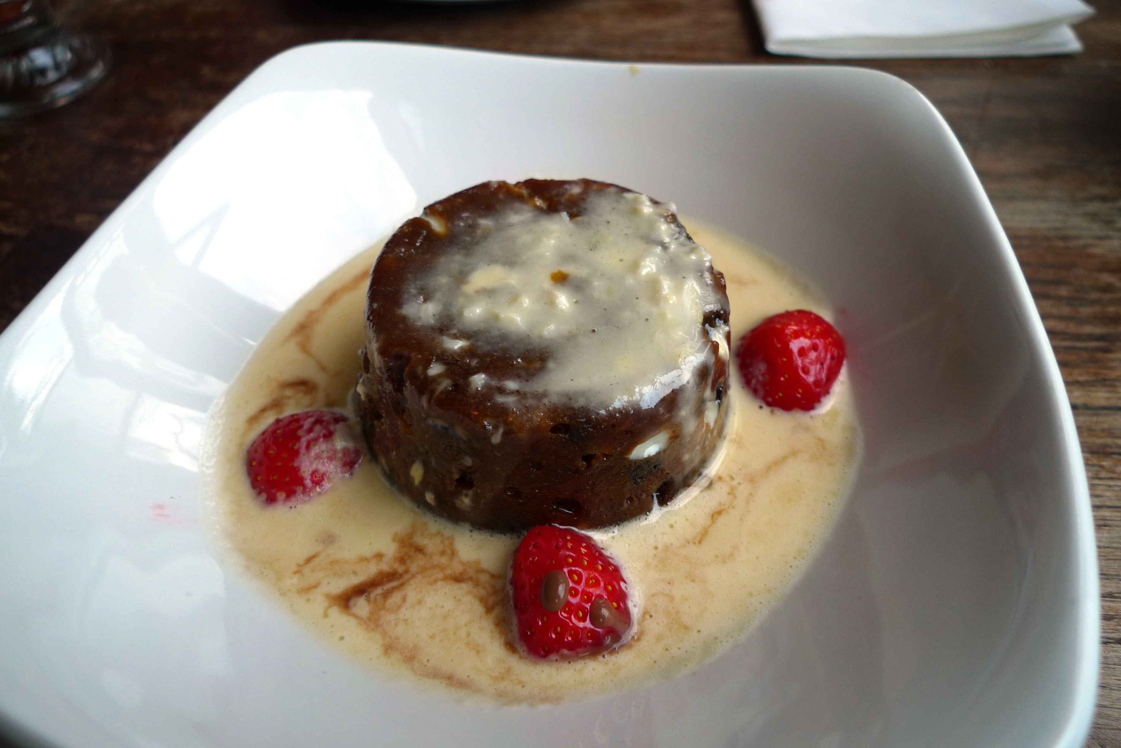 A fine Christmas pudding at The Crown, Cloudesley Road. They really knocked it out of the park for food quality, I felt.